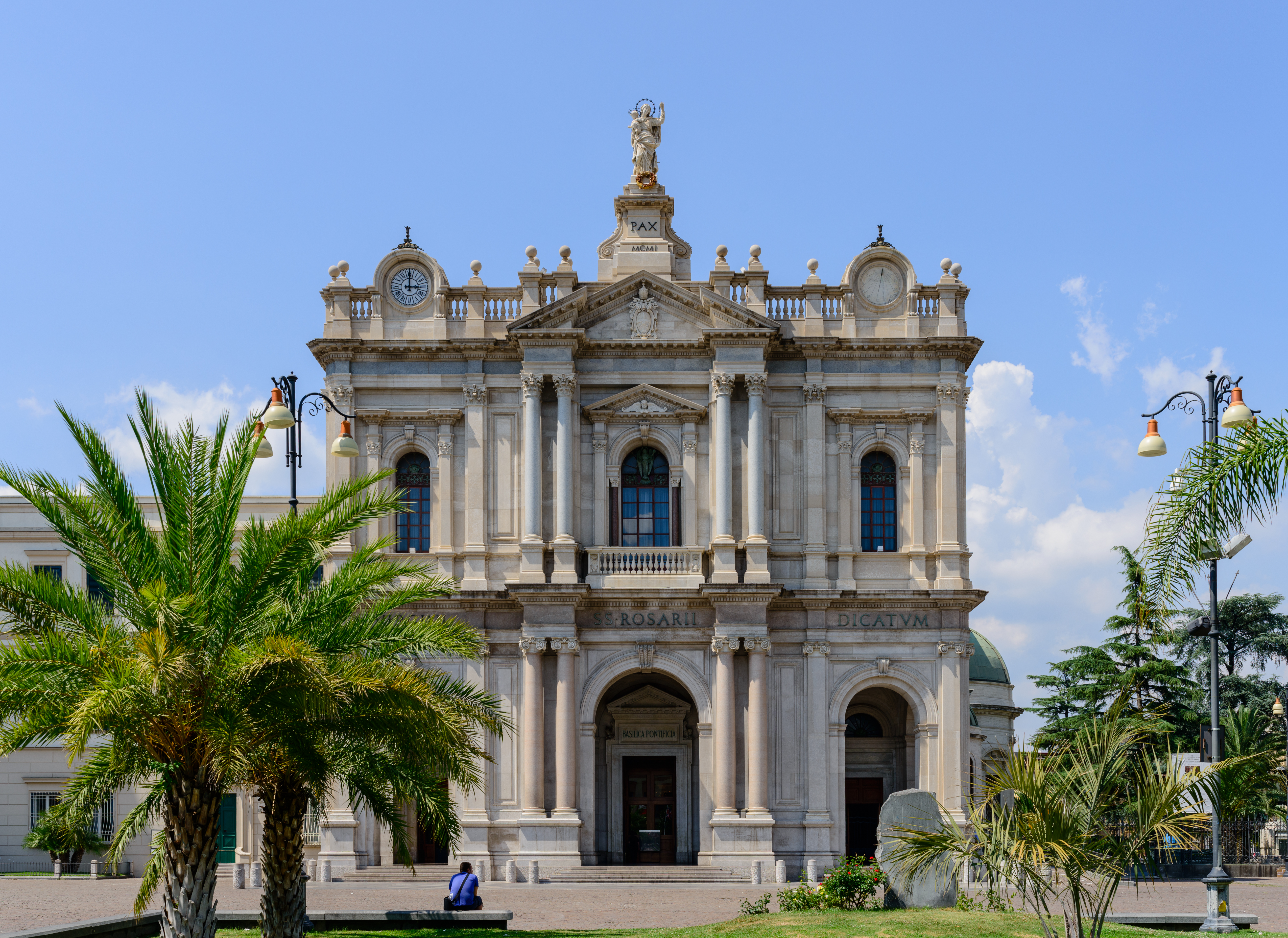 Santuario della Madonna del Rosario (church of pilgrimage), Pompei, Campania, Italy.